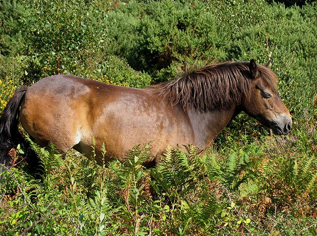 Exmoor Pony. A group of Exmoor ponies were spotted on the road and just off the road in this grid square.